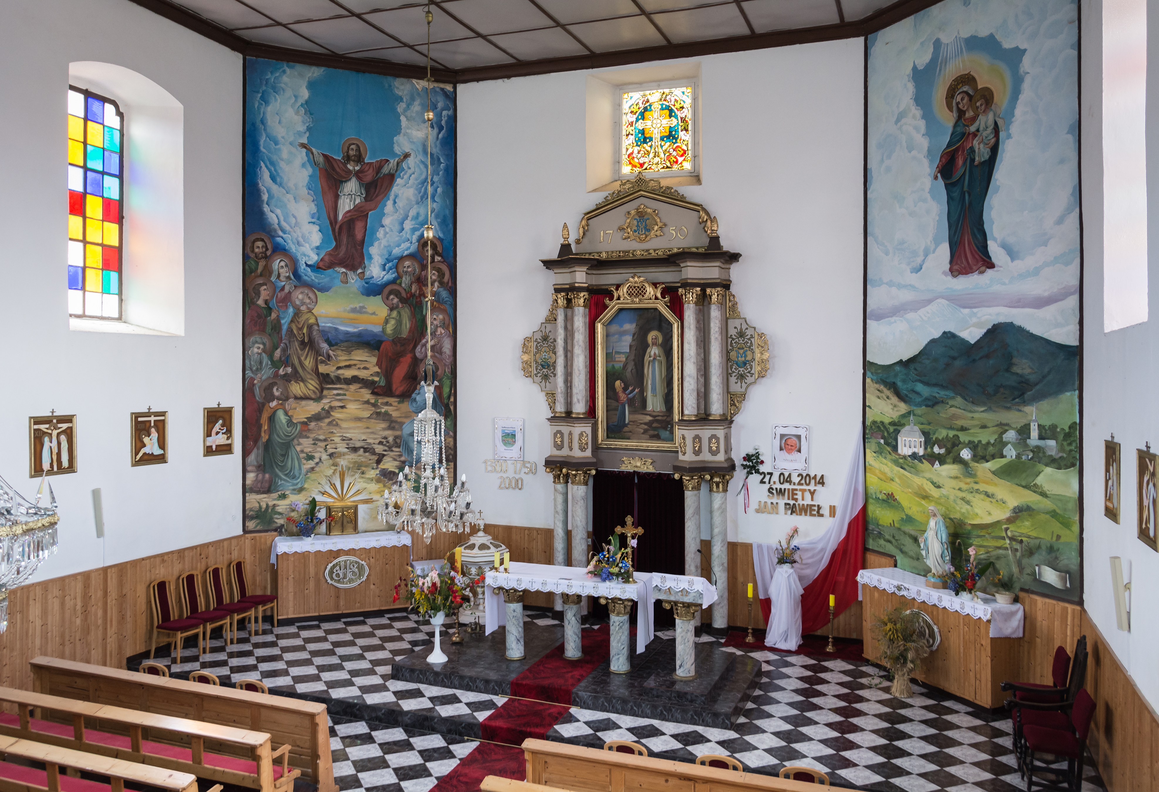 Our Lady of the Rosary church in Radomierz